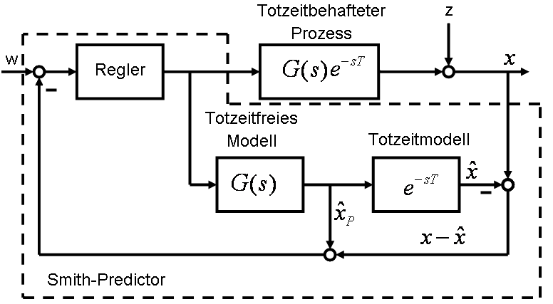 Smith-Predictor Control Theory